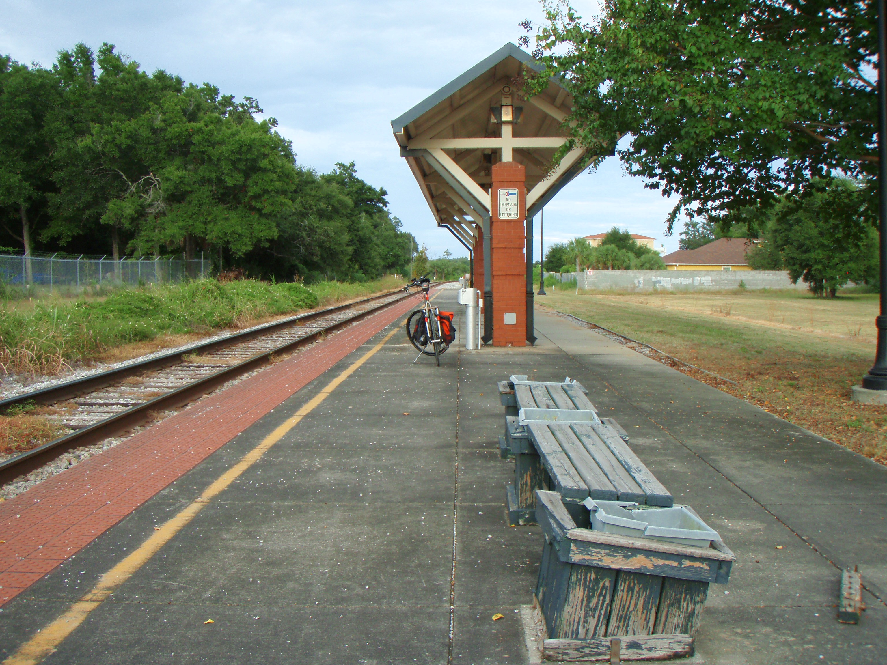 Pensacola's Amtrak station was originally commissioned in 1993, and was a stop on the famous Sunset Limited line. But Hurricane Katrina in 2005 damaged large sections of track west of Pensacola, and the station was shuttered. It's been rotting ever since. There are no immediate plans to put the station back into service.